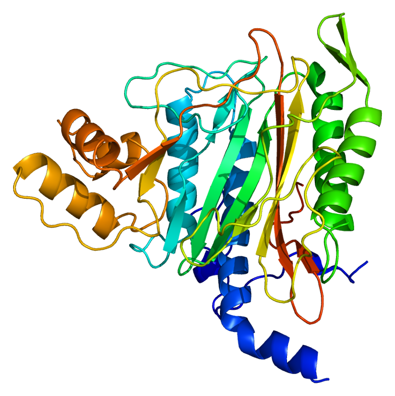 Structure of the METAP2 protein. Based on PyMOL rendering of PDB 1b59.